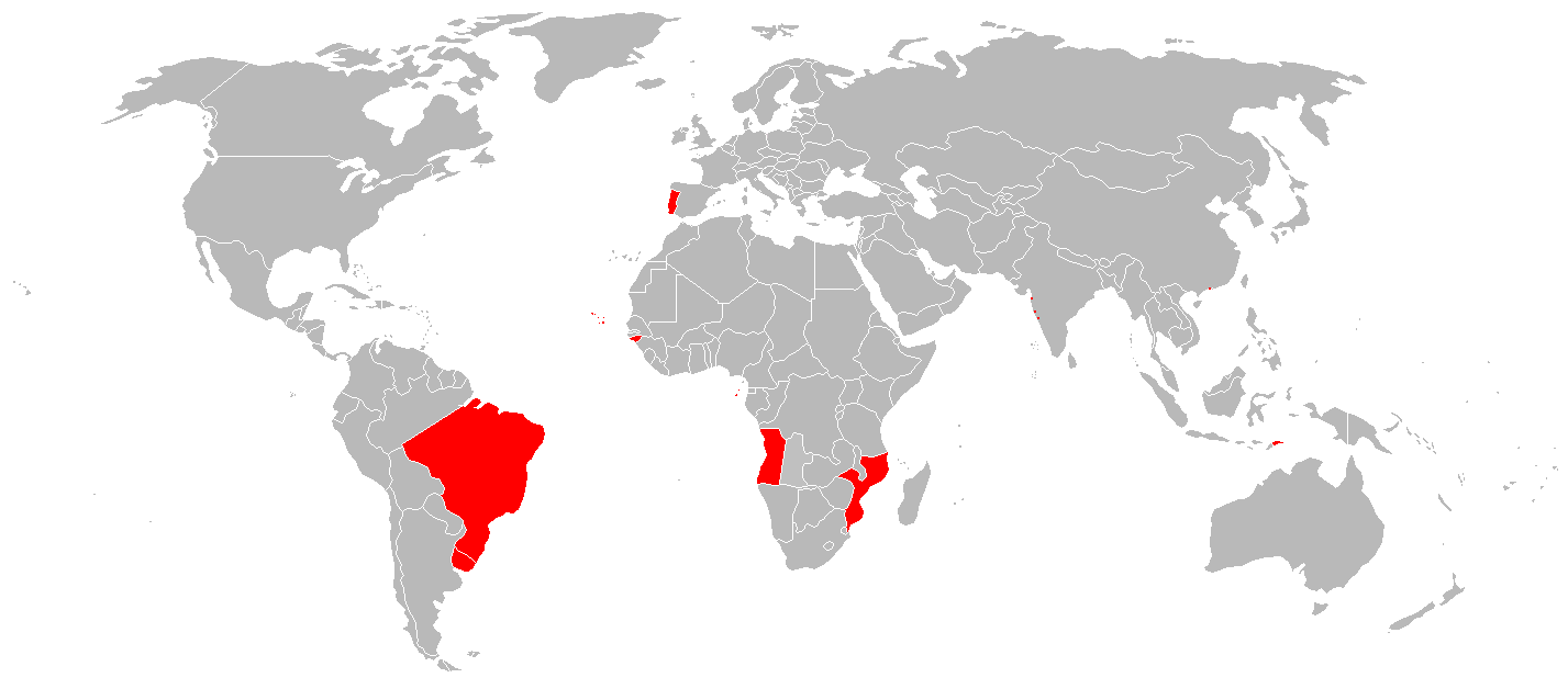 Portuguese territory in the XVIII century